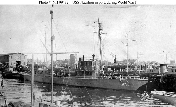 The United States Navy patrol vessel during World War I. The patrol vessel is astern of her.